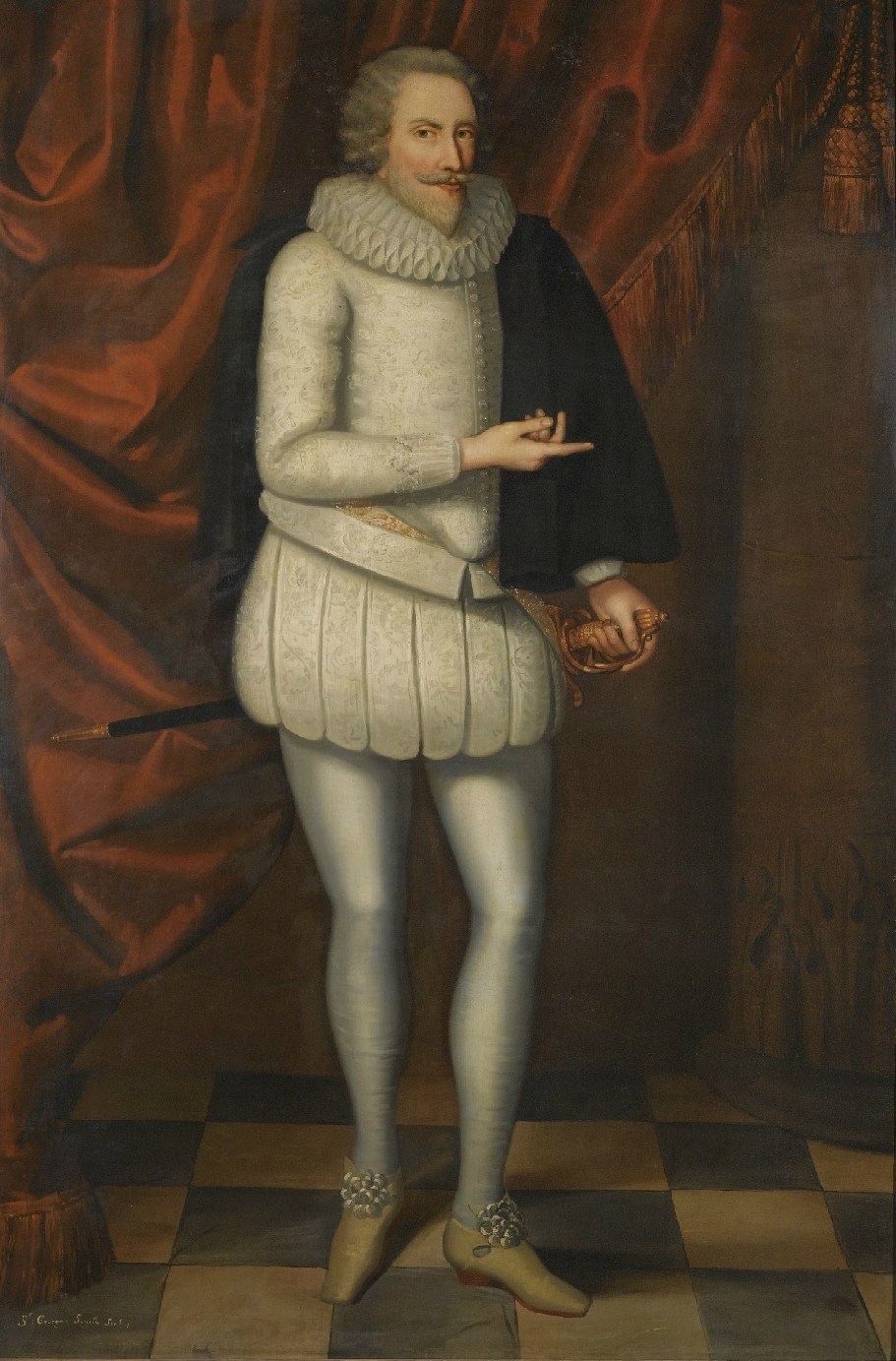 Portrait of Sir George Savile, 1st Baronet (1550-1622)